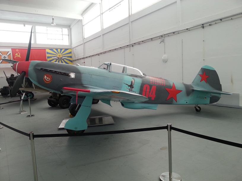 Yakovlev Yak-9 (D-FAFA) in the Hangar 10 at Heringsdorf Airport (Usedom, Germany)